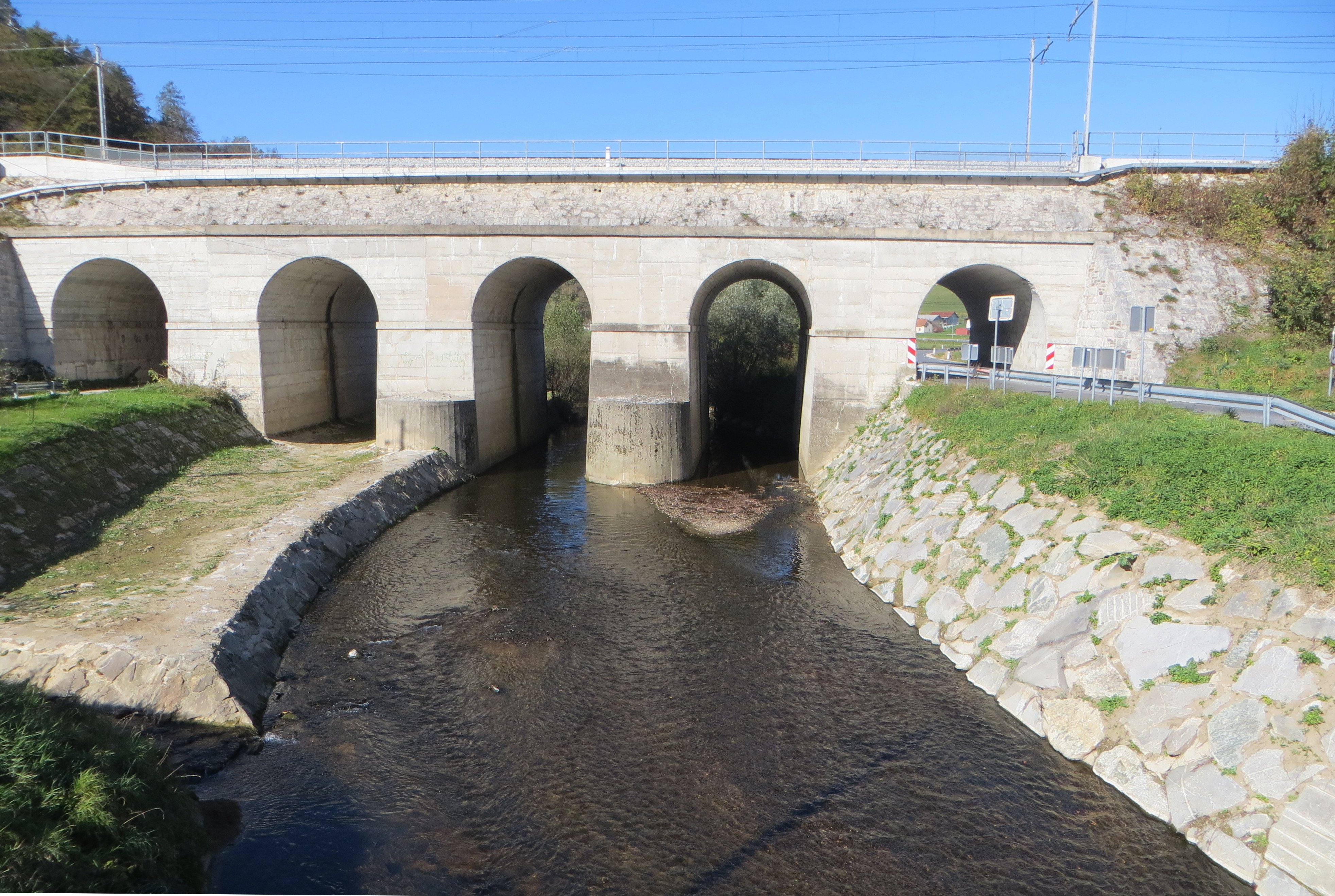 Railroad viaduct over the Dravinja River in Zbelovska Gora, Municipality of Slovenske Konjice, Slovenia